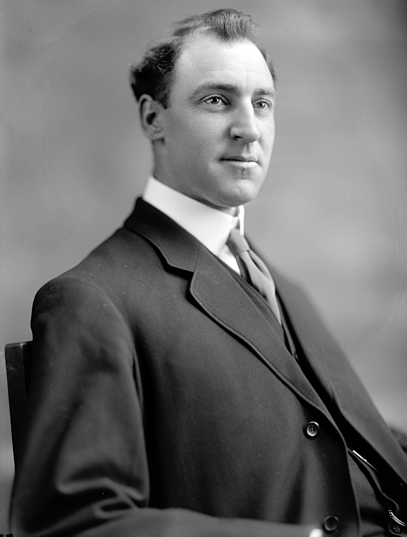 Frederick Simpson Deitrick, US Representative from Massachusetts